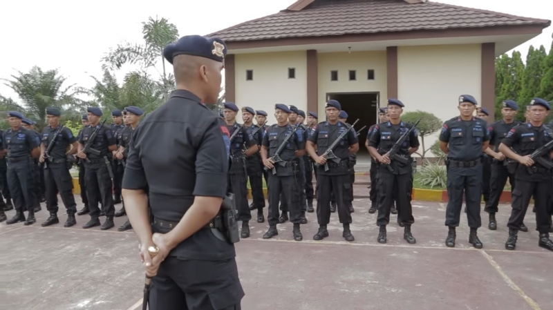 indonesian special police